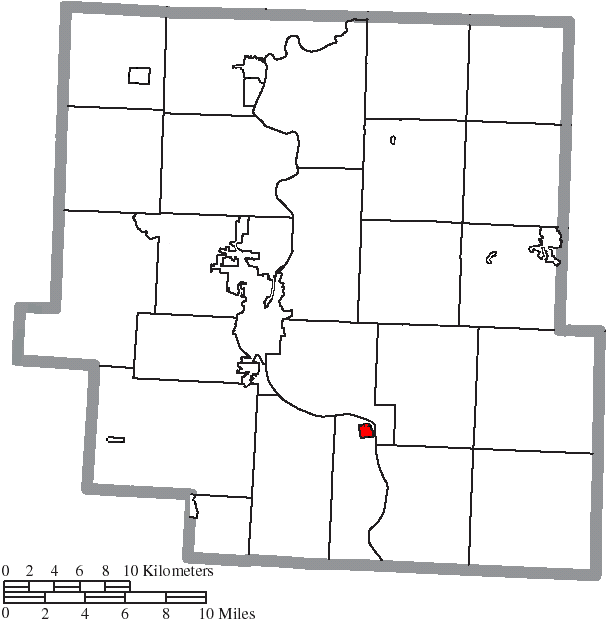 Map of the municipal and township boundaries of Muskingum County, Ohio, United States, as of the 2000 census, with the location of the village of Philo highlighted. Township borders are shown only in unincorporated areas in order to differentiate incorporated and unincorporated areas more clearly.